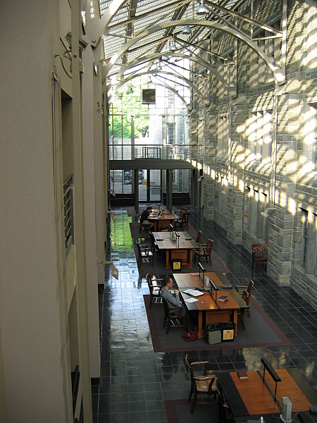 Inside Harvey S. Firestone Memorial Library (main building of Princeton University Library) Princeton University; Princeton, NJ